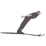 Niewiem